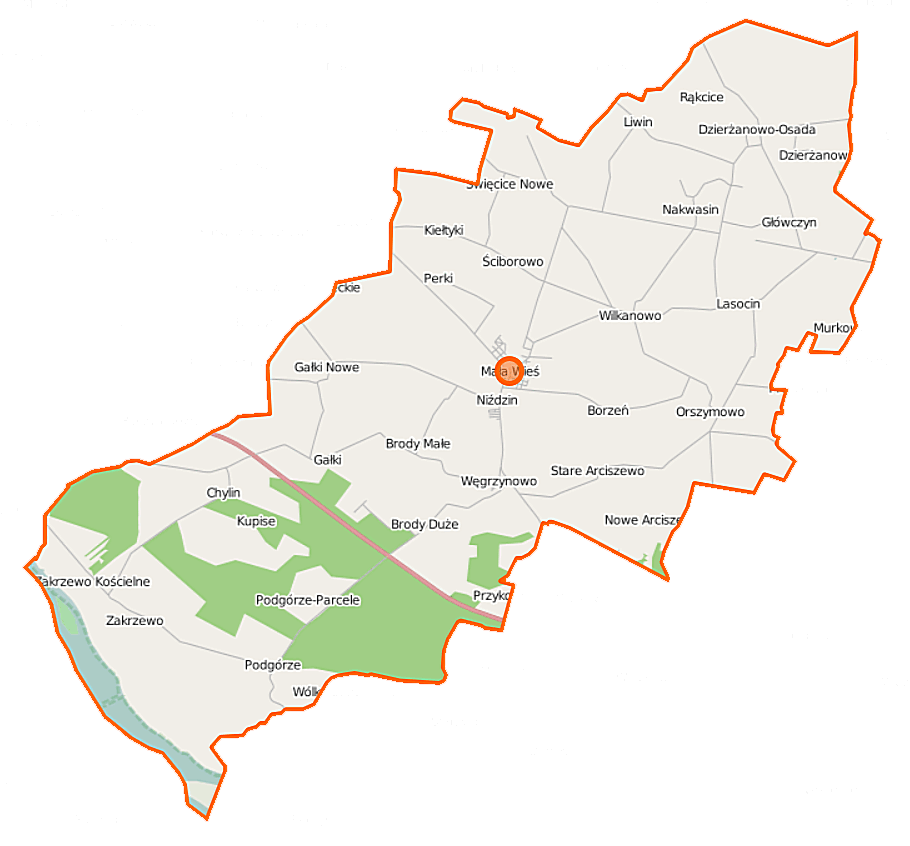 Map of Gmina Mała Wieś, Poland This map of Mała Wieś (gmina) was created from OpenStreetMap project data, collected by the community. This map may be incomplete, and may contain errors. Don't rely solely on it for navigation. Border coordinates52.520319.9635←↕→20.212752.3789